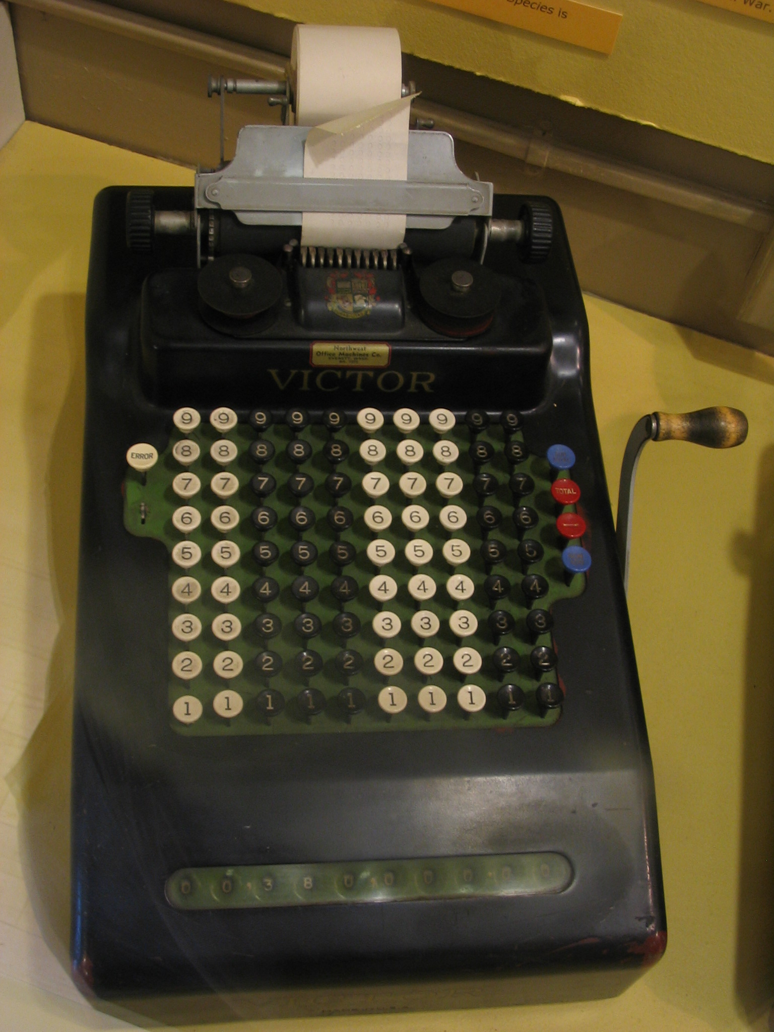 10-digit Comptometer with built-in printer.